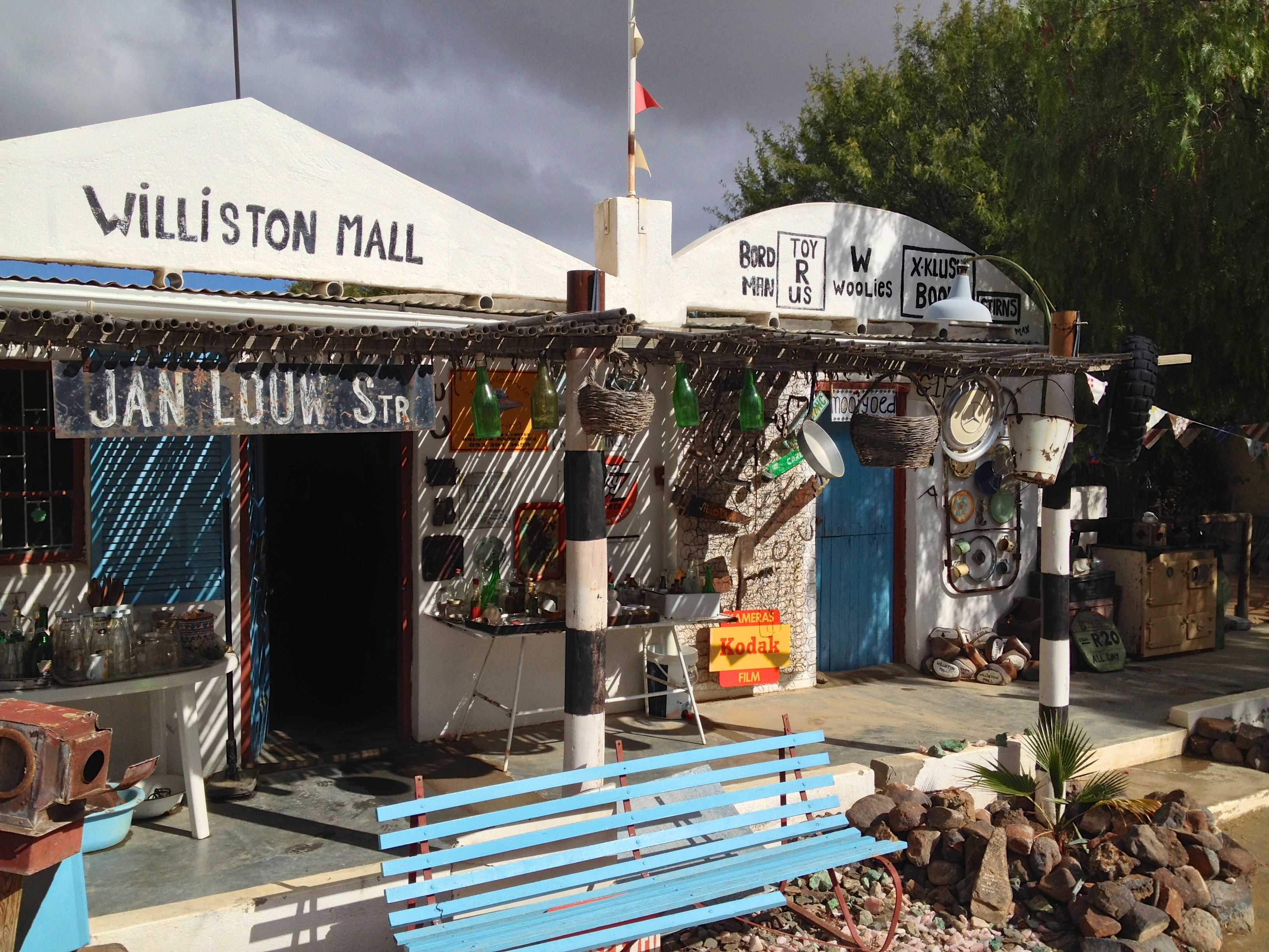 Williston Mall, Williston, South Africa.